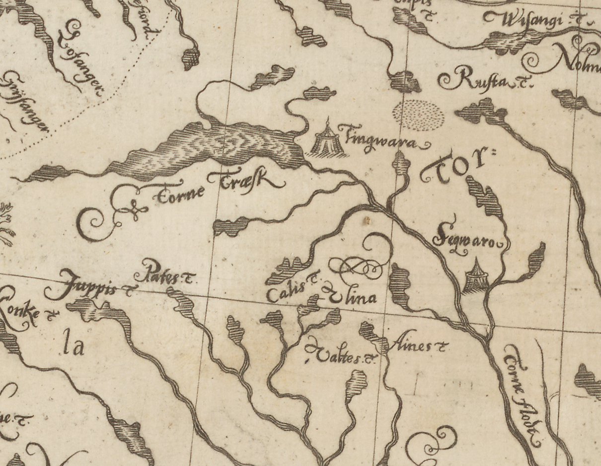 Part of the Swedish Torne Sami district on Anders Bure's map of the Nordic countries from 1626, Orbis arctoi nova et accurata delineatio. The large lake is Torne Träsk in the Torne River. The tents symbolize two of the historic Sami communities of Torne Sami district, Tingevara and Siggevara.